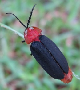 Pyrocoelia atripennis, Ishigaki